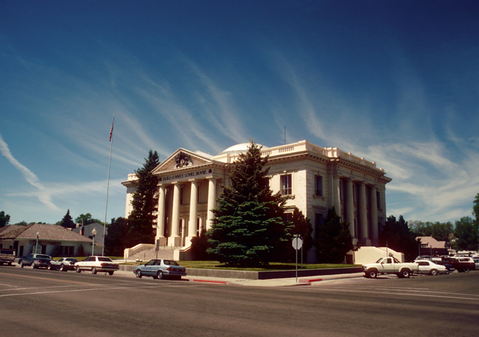 The Elko County Courthouse, located at 571 Idaho Street (State Route 535) in Elko, Elko County, Nevada, United States. Built in 1911, it was added to the National Register of Historic Places on 23 September 1992.